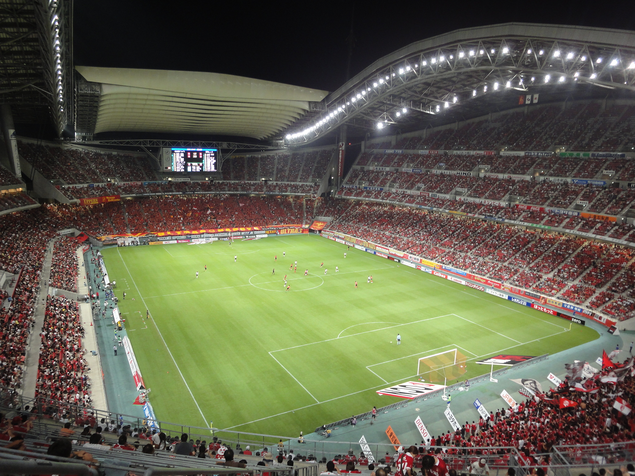 Nagoya Grampus vs Urawa Reds in Toyota Stadium in 18 August 2010